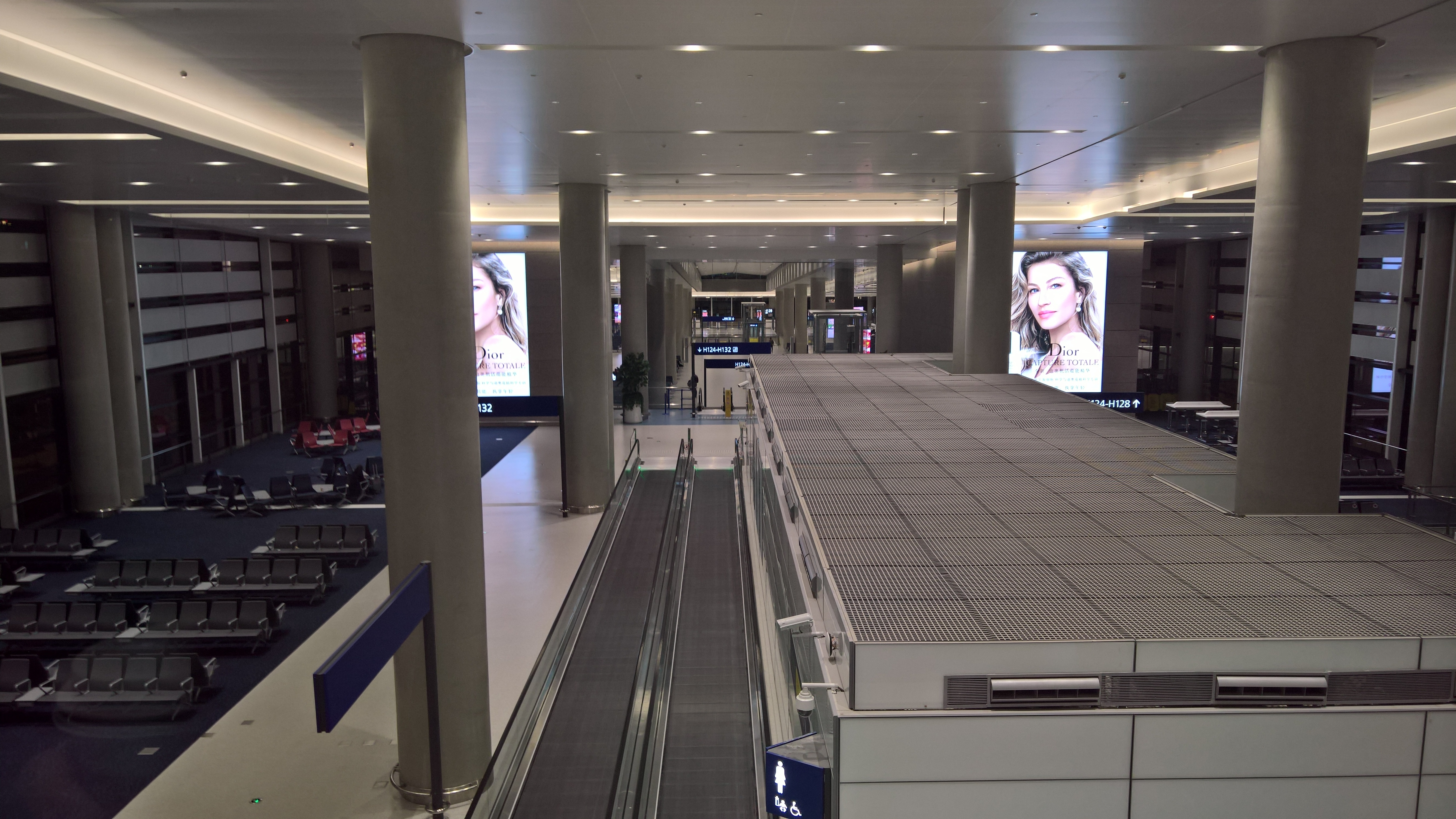 Satellite Terminal of PVG